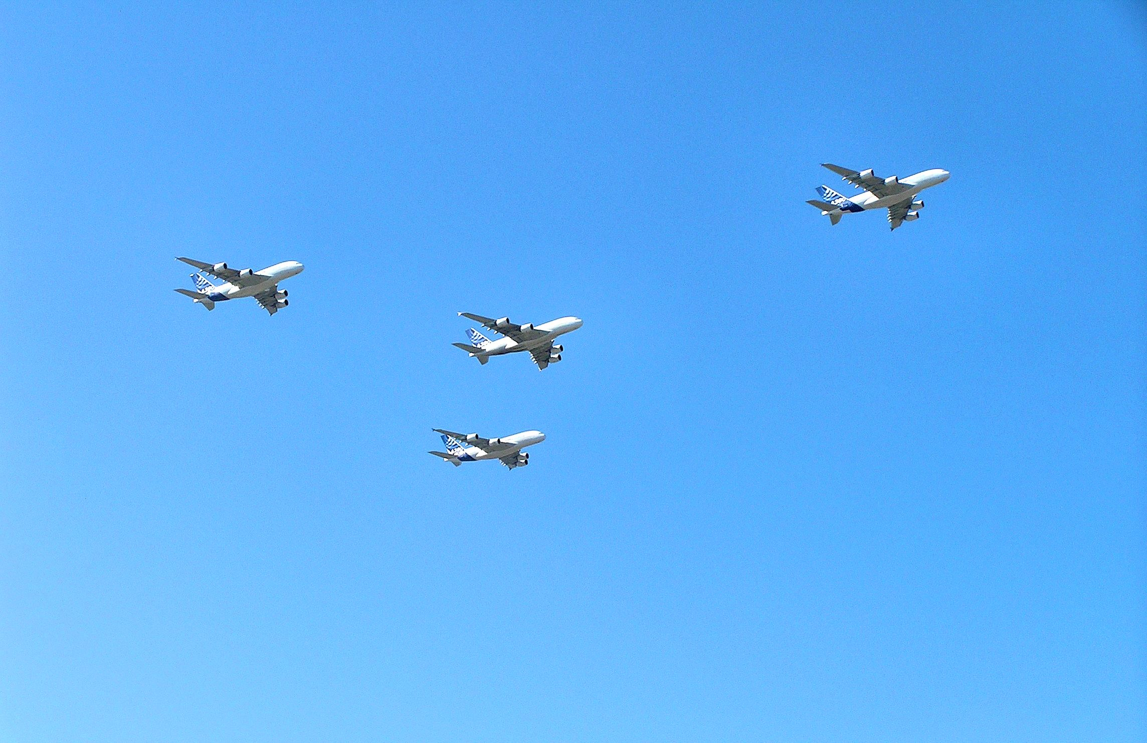 A380 Formation Flight Toulouse 30. August 2006 (MSN 001, 002, 004 & 007)